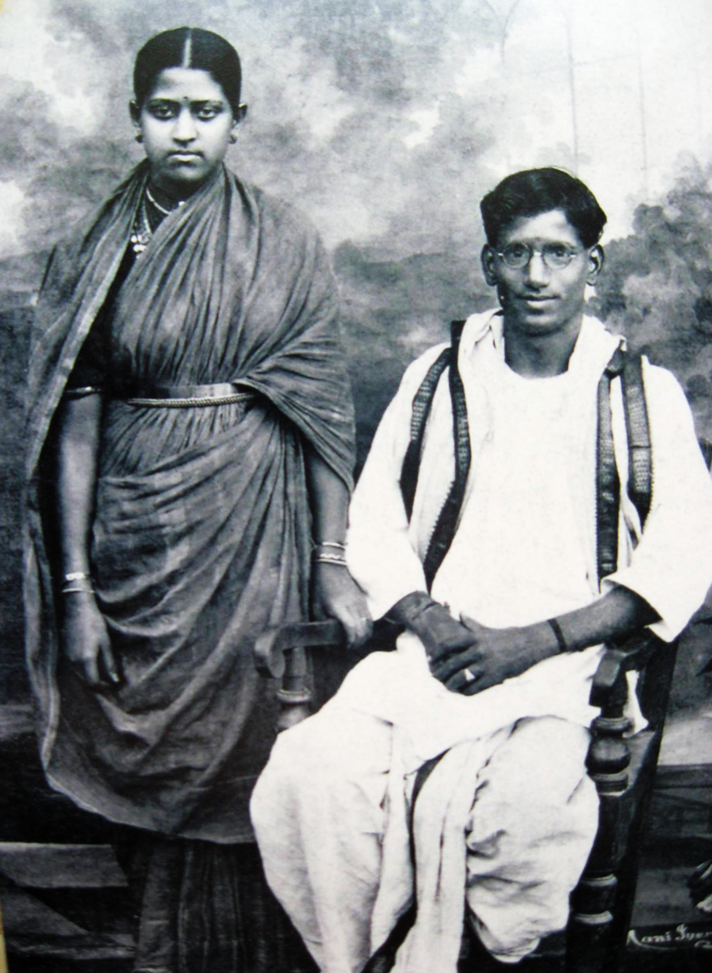 Portrait of Indian freedom fighter Kovai Subri and his wife Kamala. Scan from private family collection.